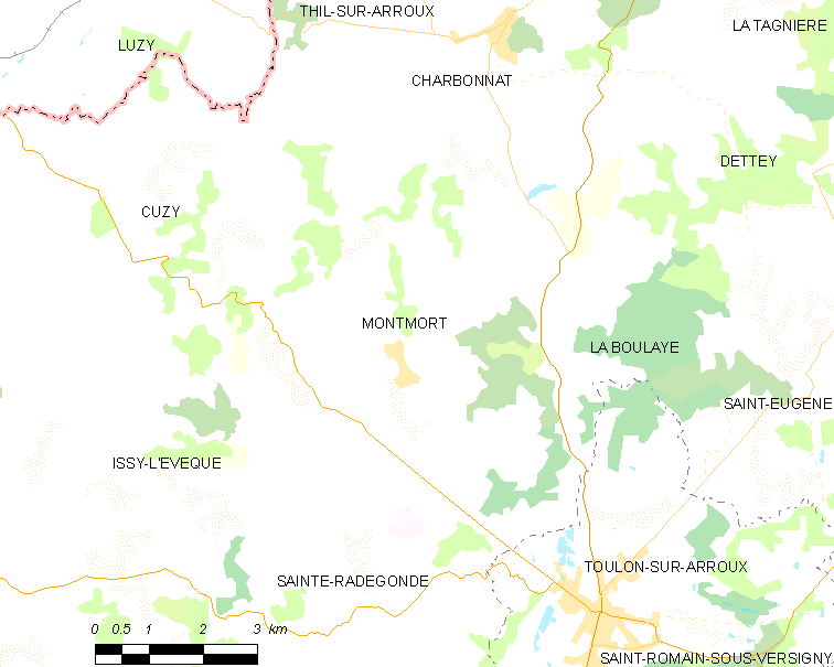 Map of French municipality